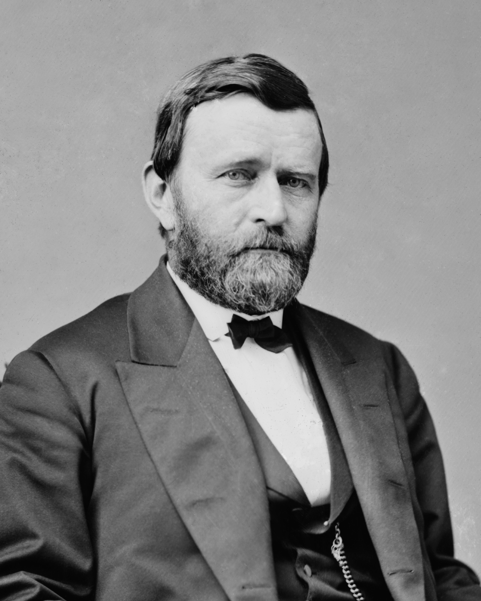 Portrait photograph of US President Ulysses S. Grant